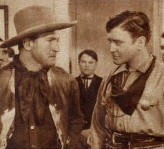 Shot of Richard Dix and Joe Sauers from the 1935 film, The Arizonian Other information for an explanation of the copyright for information regarding public domain